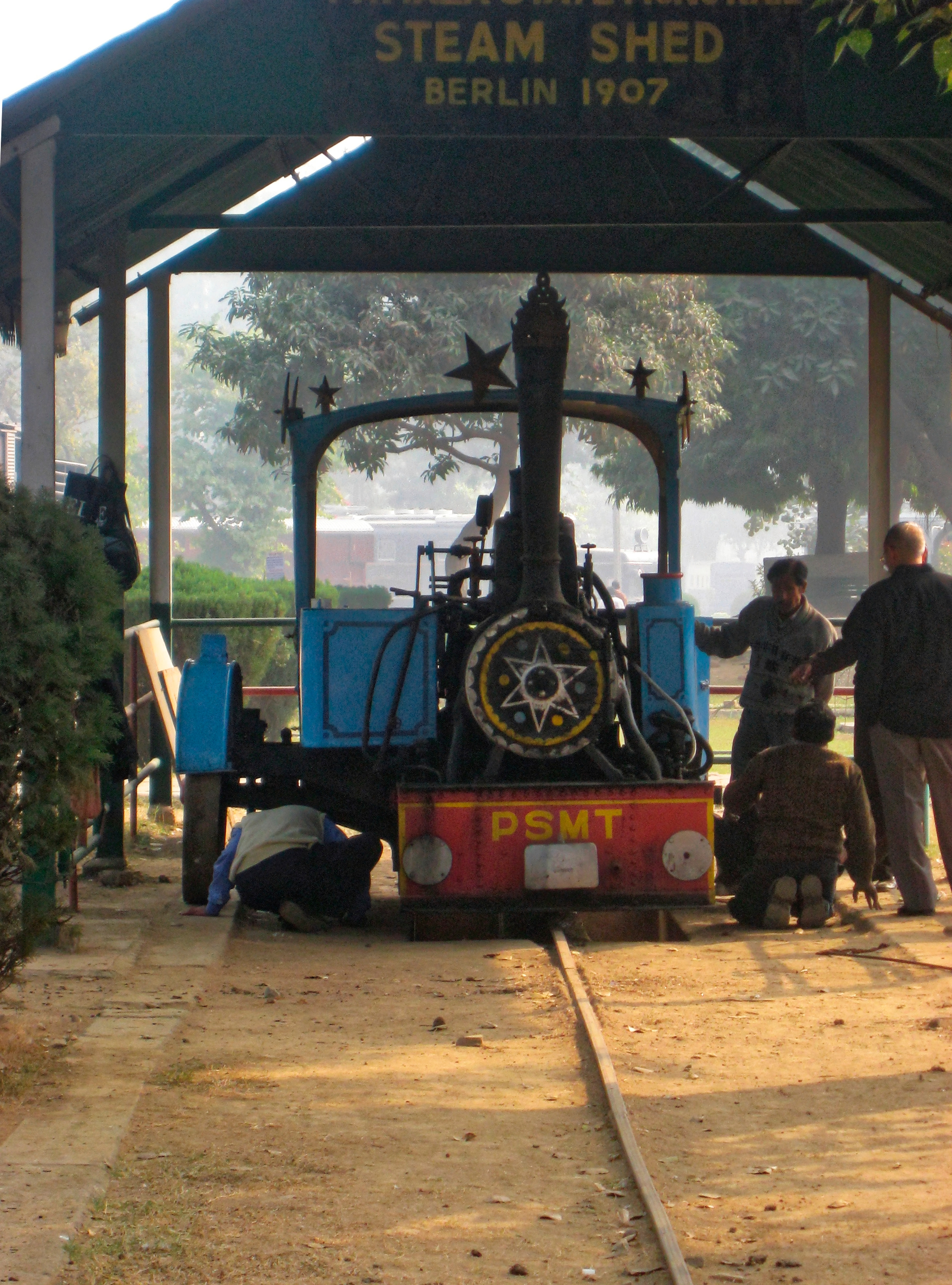 Monorail steam train at National Rail Museum, New Delhi. Has one wheel to stop it falling over. The idea did not catch on